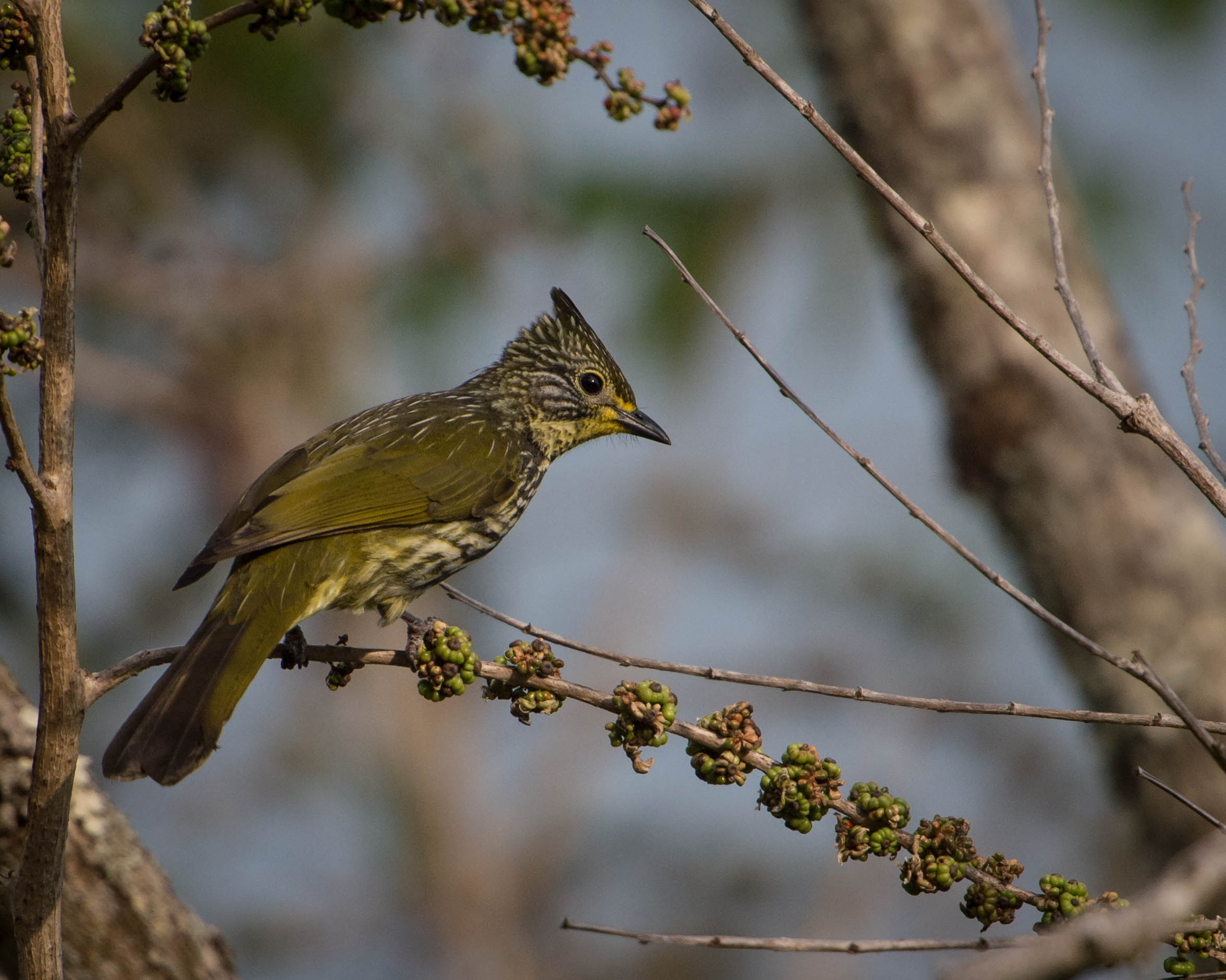 Striated Bulbul (Pycnonotus striatus) at Thai/Myanmar Border. Doi Pha Hom Pok National Park, Chiang Mai Thailand. Tallest point 2,285 metres above sea level